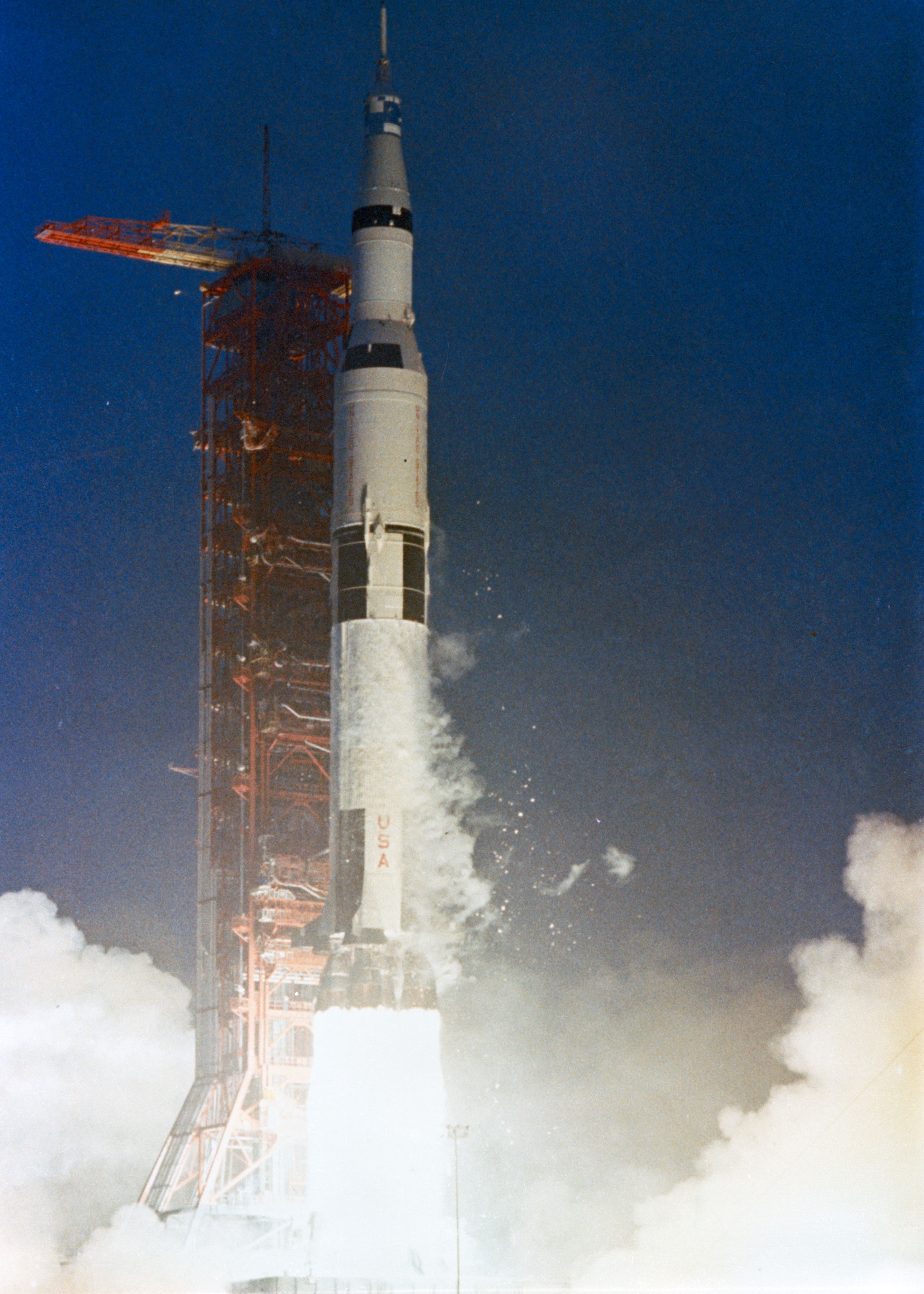 S69-58883 (14 Nov. 1969) --- The huge, 363-feet tall Apollo 12 (Spacecraft 108/Lunar Module 6/Saturn 507) space vehicle is launched from Pad A, Launch Complex 39, Kennedy Space Center (KSC), at 11:22 a.m. (EST), Nov. 14, 1969. Aboard the Apollo 12 spacecraft were astronauts Charles Conrad Jr., commander; Richard F. Gordon Jr., command module pilot; and Alan L. Bean, lunar module pilot. Apollo 12 is the United States' second lunar landing mission.